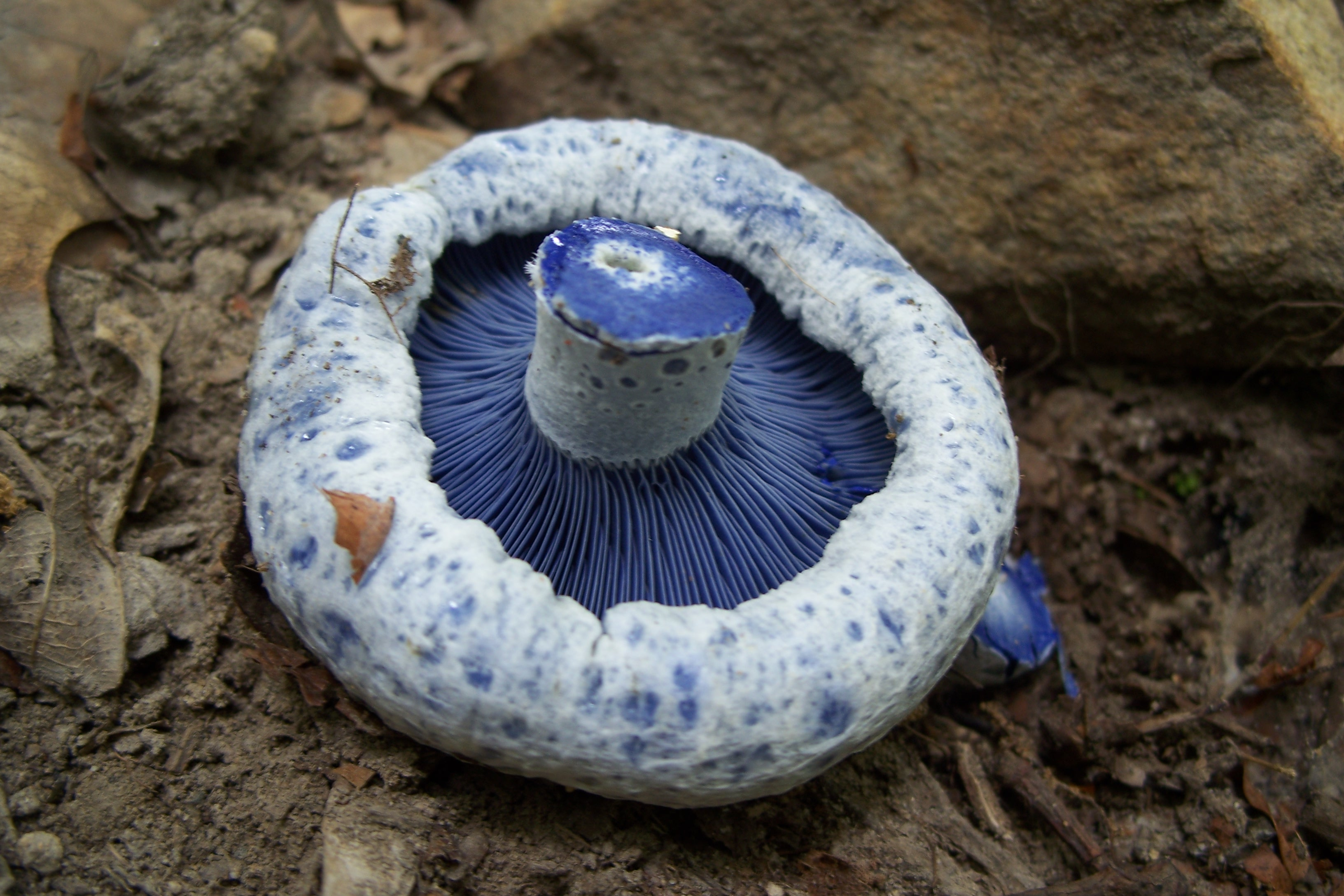 The indigo milkcap, species Lactarius indigo (Schwein.) Fr. Specimen photographed in Gatewood Rd off of Wolf Creek RD Fayette Co. West Virginia. Notes: "Found this in a new Mushroom foraging place. first one I found was this Indigo milky. NO mistaken what this is. It was growing under Oak. IN the past i have found them here in WV but in groups this one was alone with no others around. Spore print cream color."